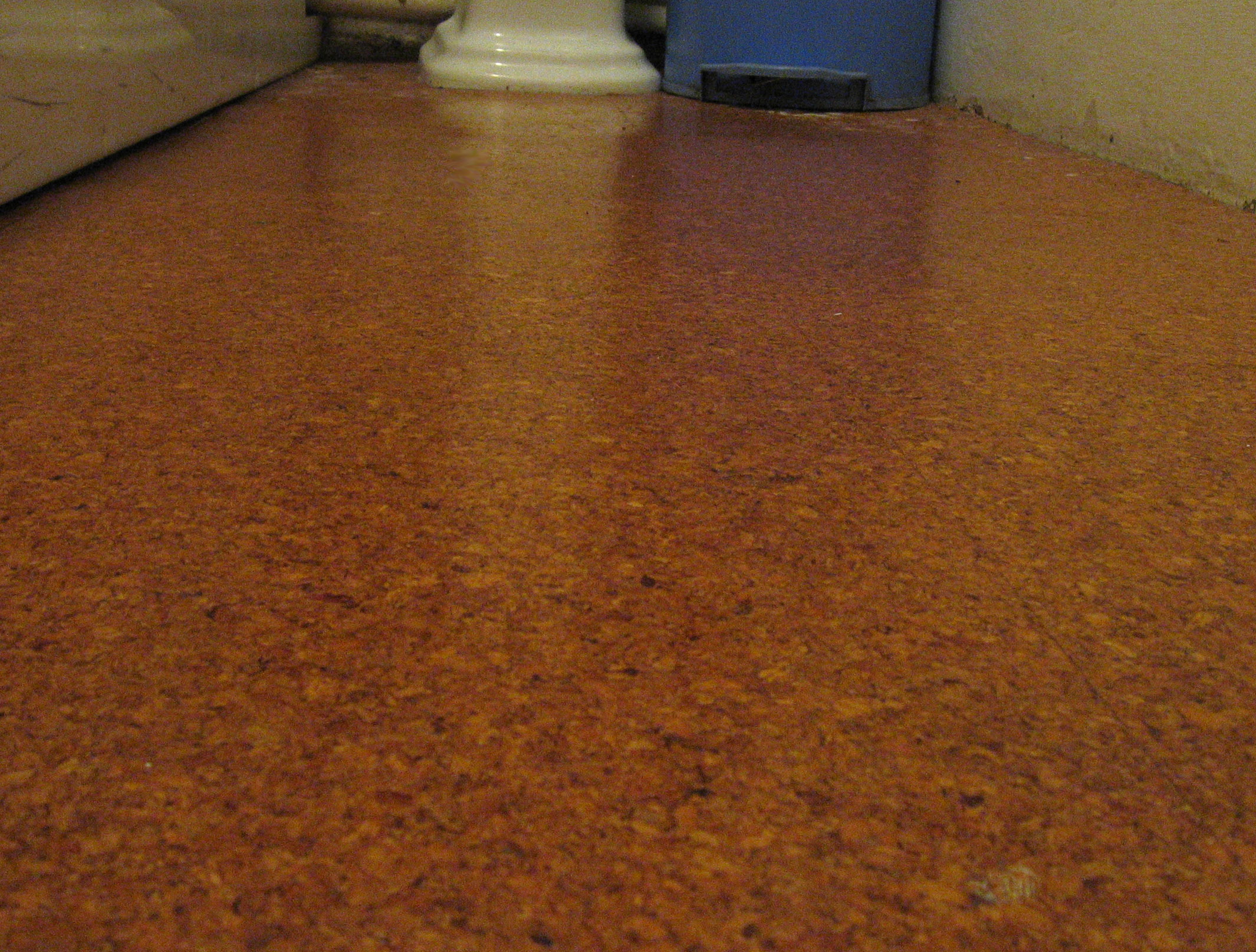 This image shows some varnished cork bathroom tiles.